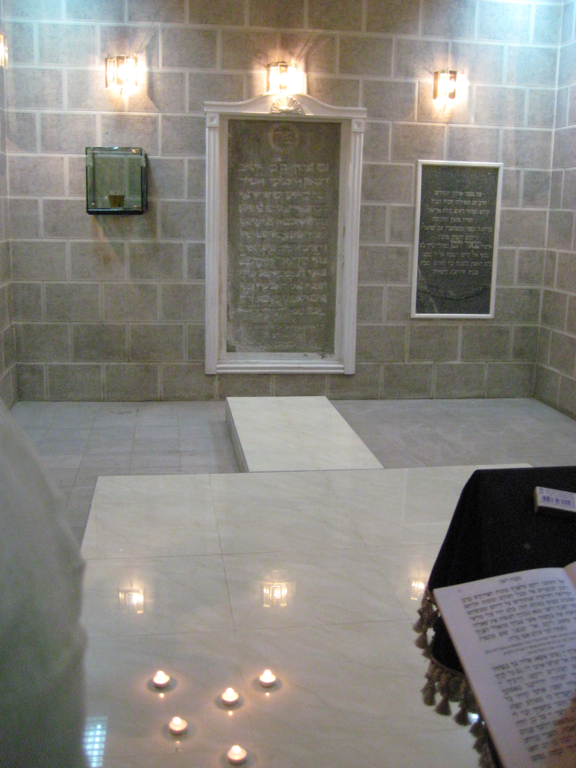 Hadiach (Ukraine)